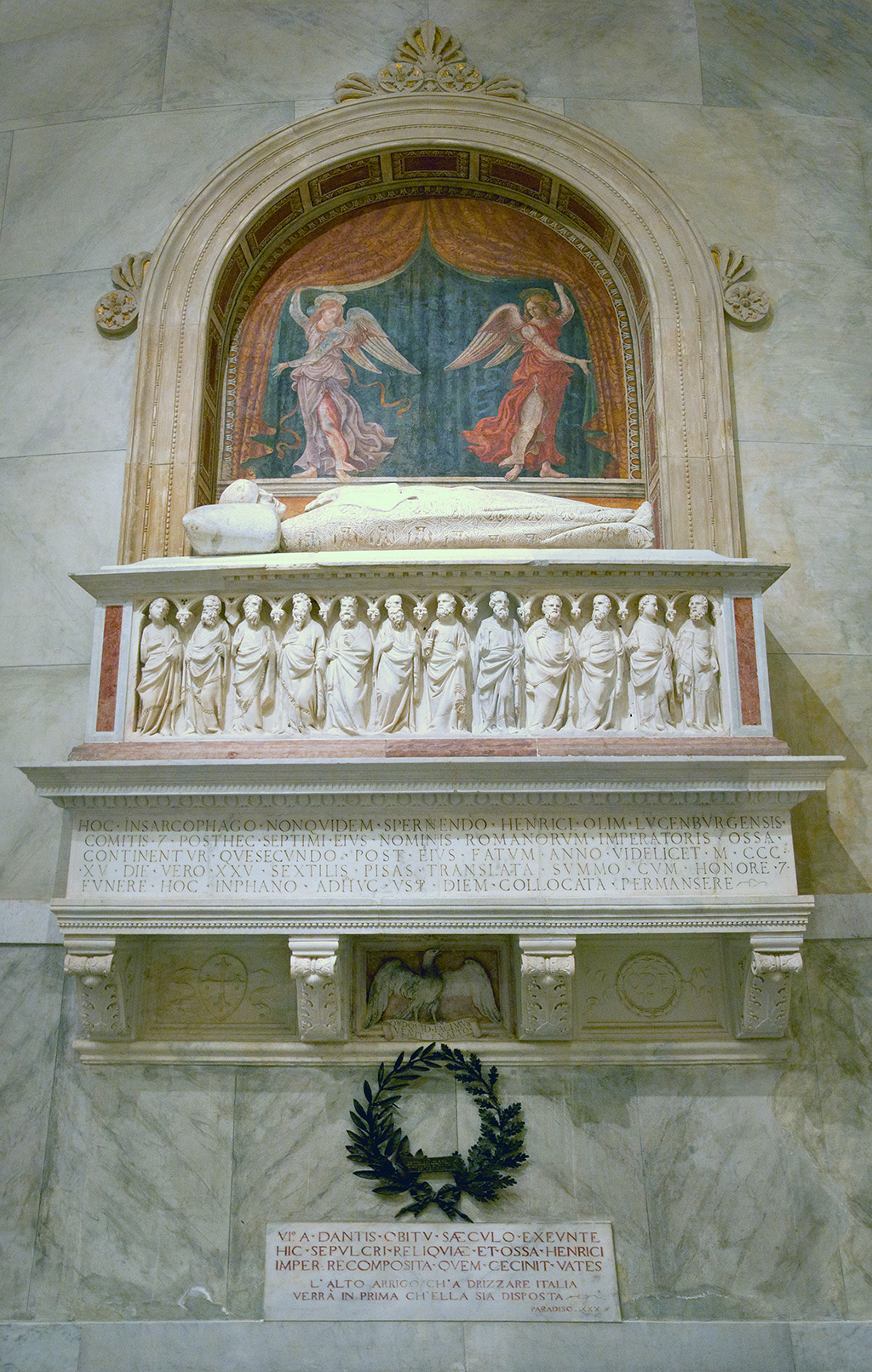 Tomb of Henry VII Holy Roman Emperor carved by Tino di Camaino fresco by the school of Domenico Ghirlandaio